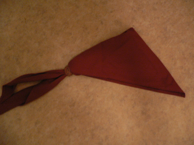 The scarf of with woggle